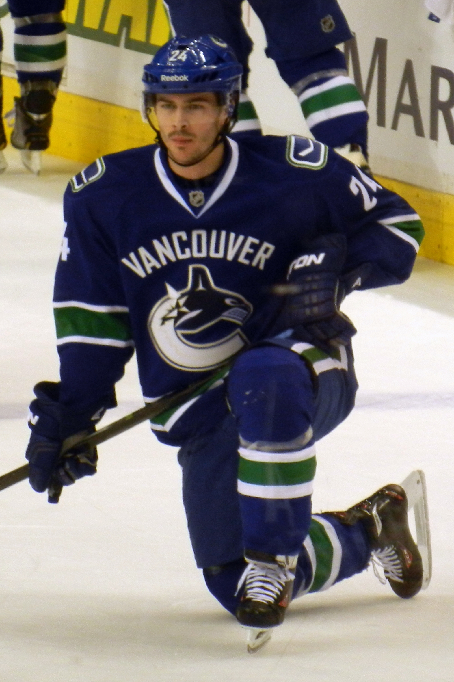 Raphael Diaz in pregame warmup for the Vancouver Canucks in 2014